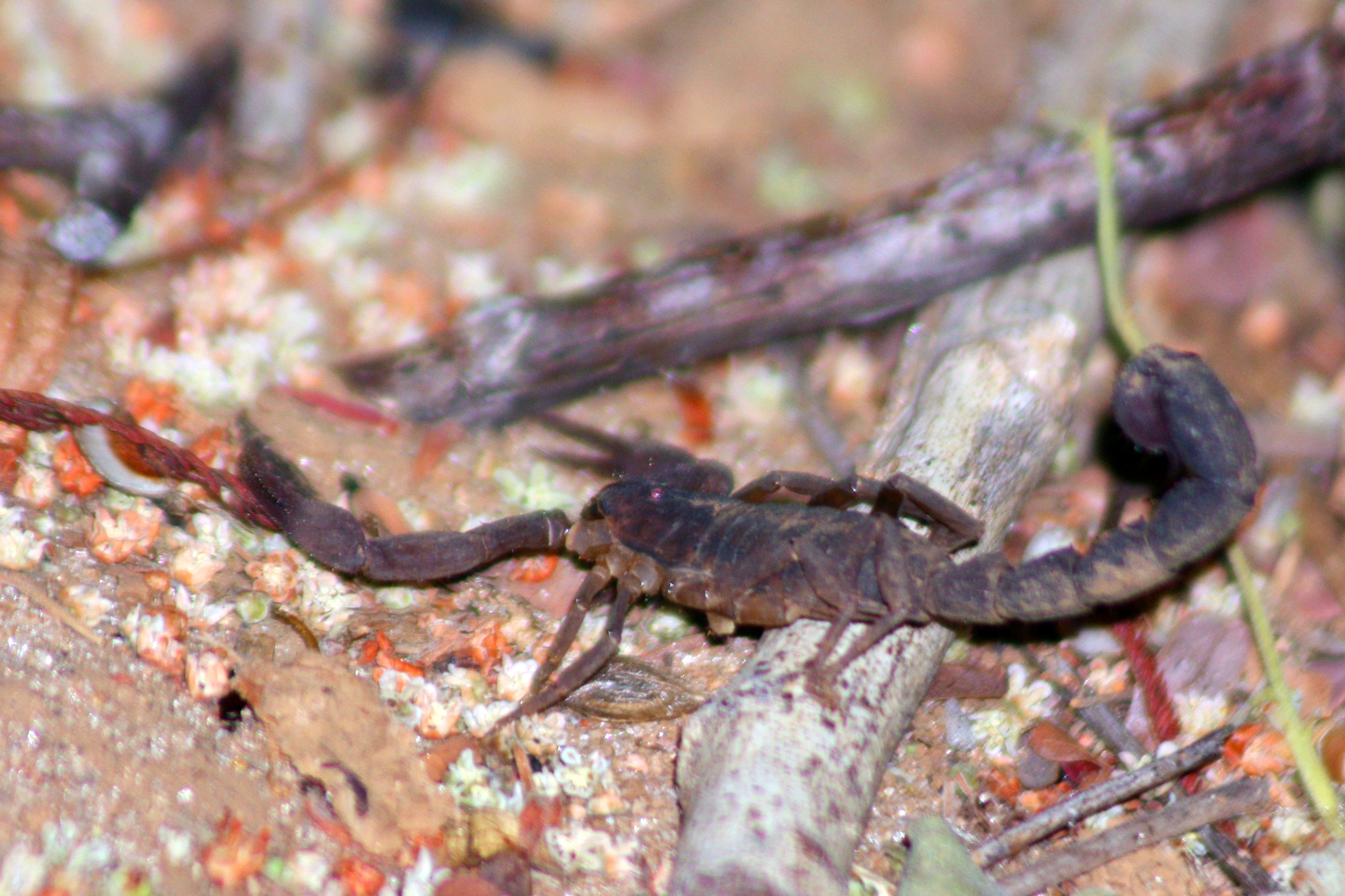 Madagascar scorpion in Anjajavy Forest, Madagascar